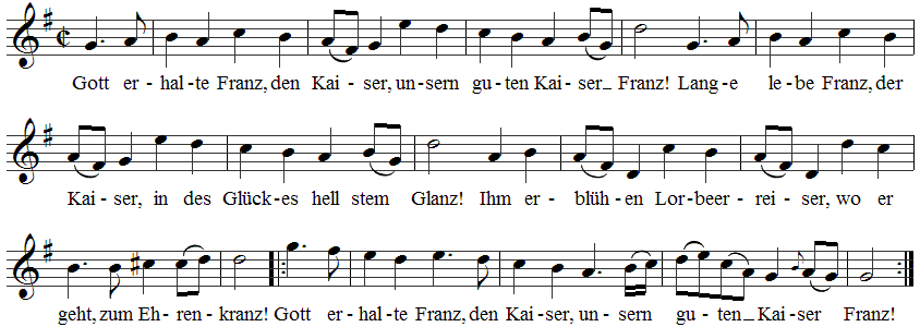 words and notes of "Gott erhalte Franz den Kaiser" by Joseph Haydn. First verse only, melody line only. This music, composed 1797, is in the public domain.